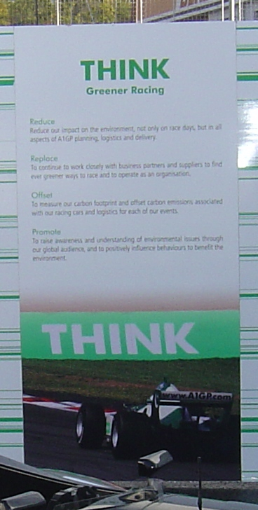 THINK Greener Racing Reduce Reduce our impact on the environment, not only on race days, but in all aspects of A1GP planning, logistics and delivery. Replace To continue to work closely with business partners and suppliers to find ever greener ways to race and to operate as an organisation. Offset To measure our carbon footprint and offset carbon emissions associated with our racing cars and logistics for each of our events. Promote To raise awareness and understanding of environmental issues through our global audience, and to positively influence behaviours to benefit the environment. (the photo was taken during 2007's A1GP race weekend at Brno) .